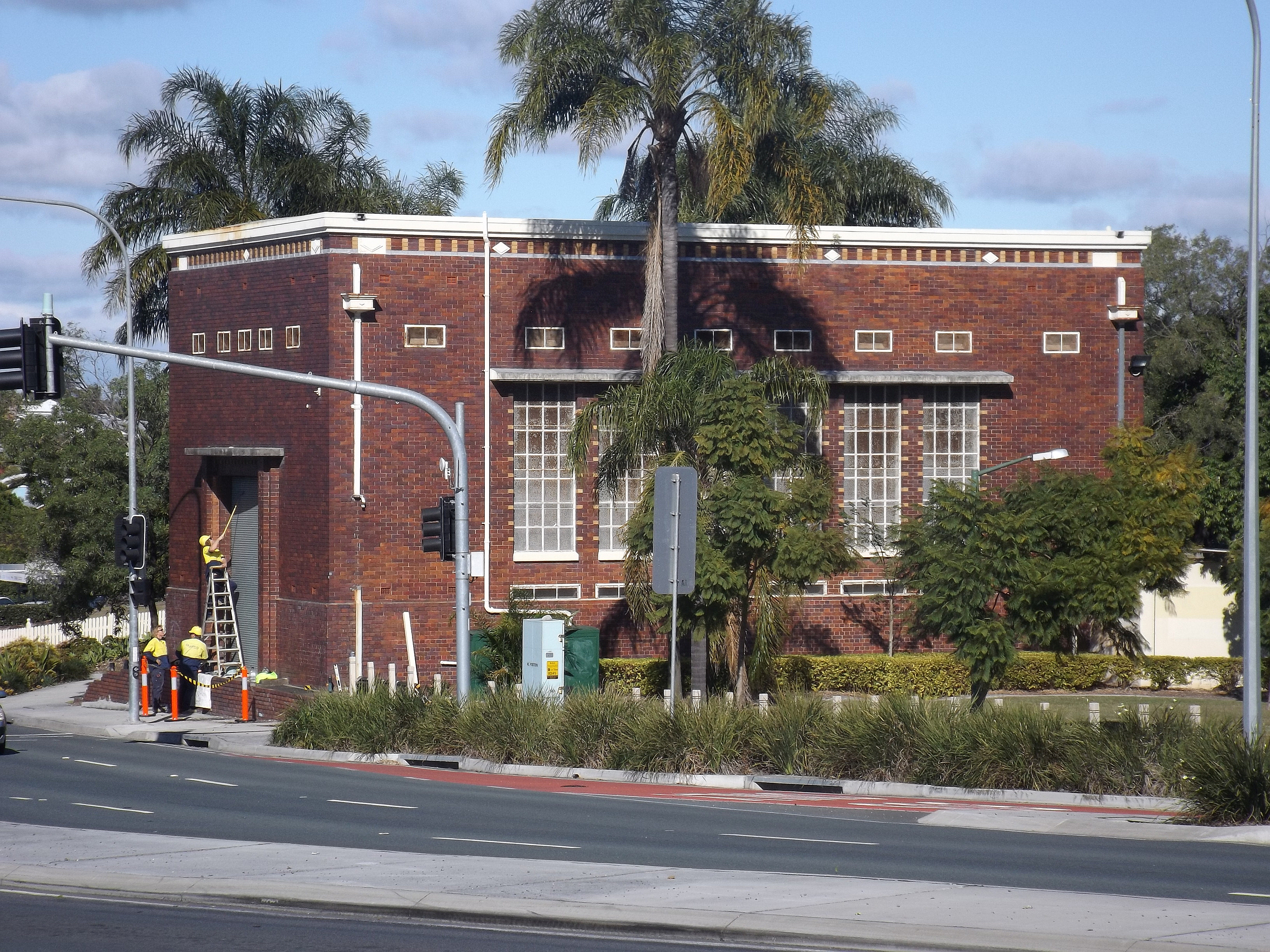 Photo of substation at Windsor Town Quarry Park and Tramways Substation No. 6 at Windsor, Brisbane, Queensland, Australia.